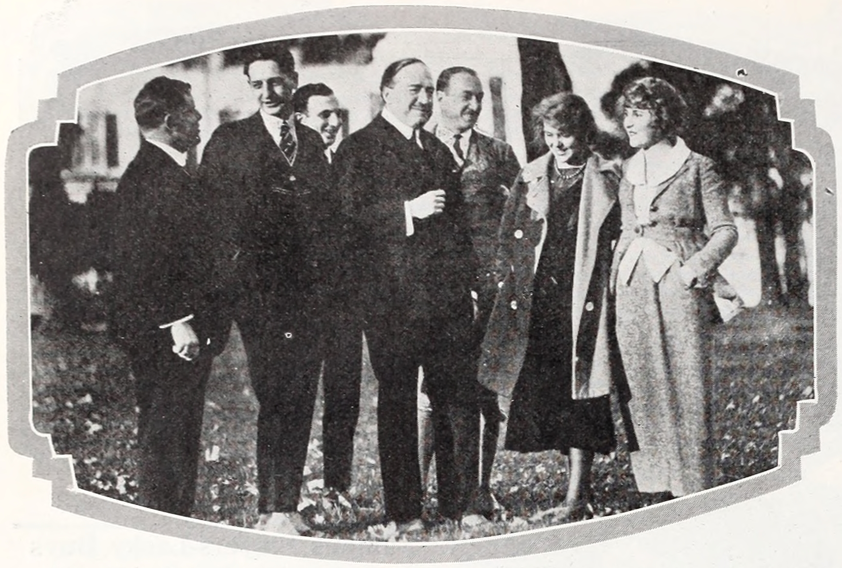 From left: Louis Renshaw de Orea, Leo A. Pollock, unidentified Person, novelist Vicente Blasco Ibáñez, actor Wallace McCutcheon, Jr., actress Blyth Daly, actress Pearl White, during a meeting at Pearl White's home, November/December 1919